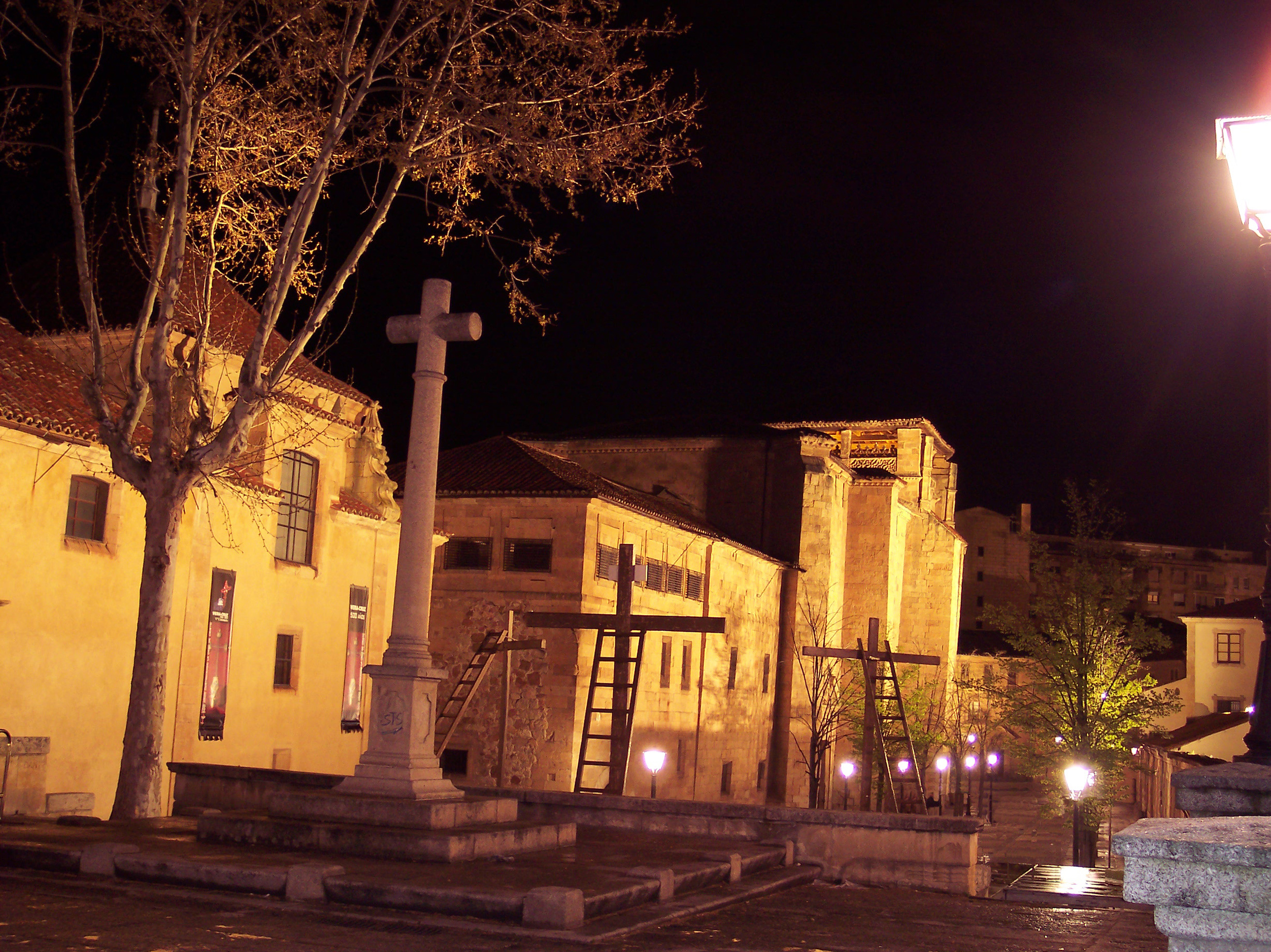 Calvary for the Descent from the Cross, in Salamanca, Spain